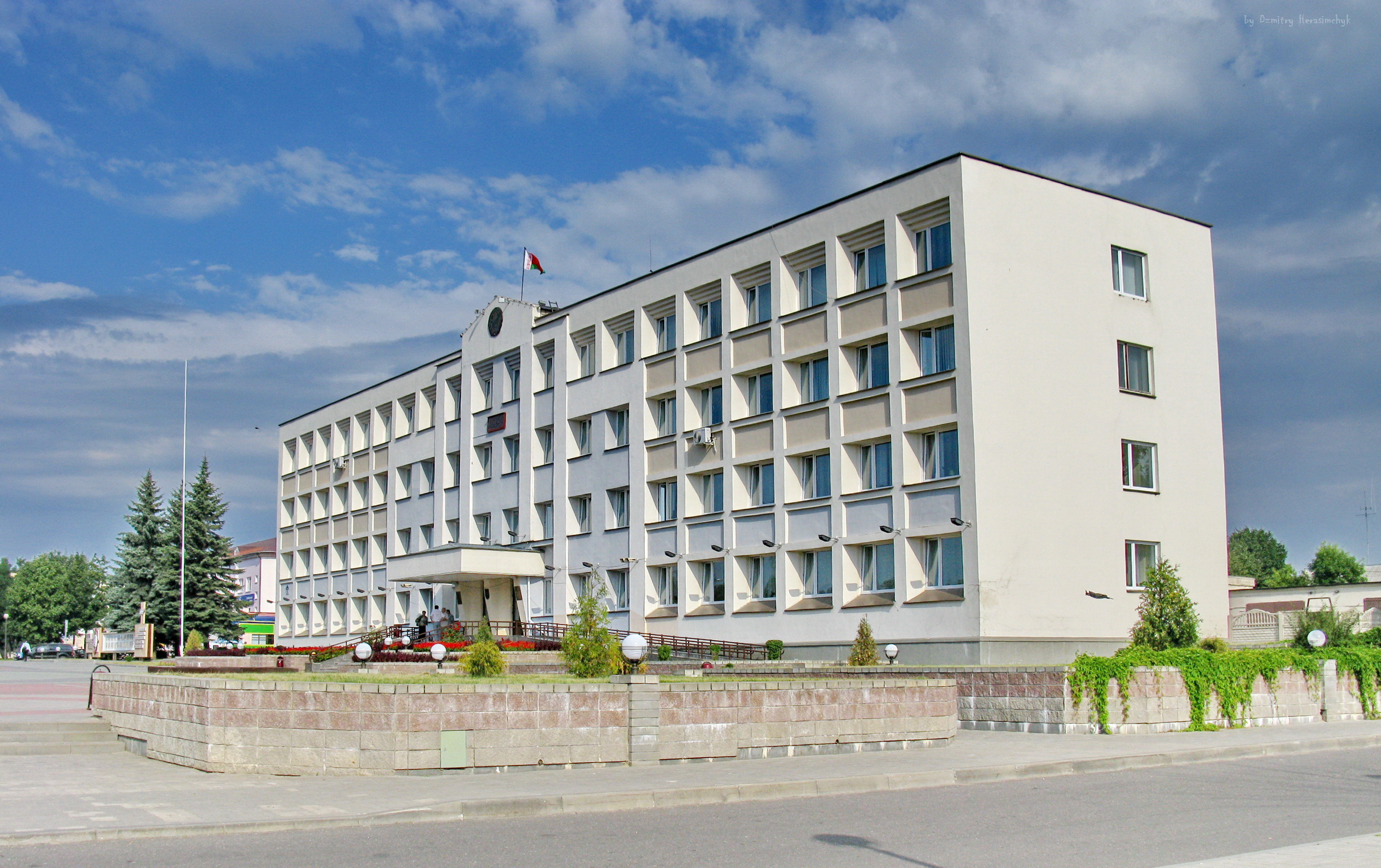 Smarhon executive committee, Belarus